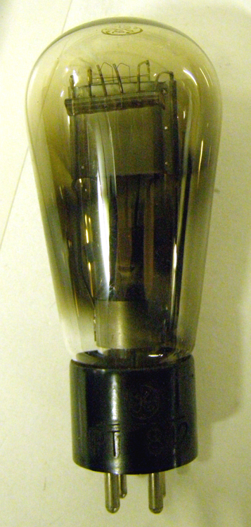 General Electric Pliotron: Small glass tube with metal and plastic components; main body of the tube is tear drop in shape and tapers at the bottom into a plastic fitting that has four circular pins; inside the tube are two vertical glass rods that support a series of metal grids and small electrodes. Invented by Irving Langmuir in 1915, the Pliotron is the first true vacuum triode (a three electrode vacuum tube).